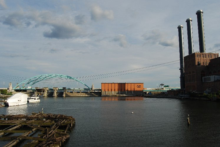 Providence River and boat basin with Providence River Bridge and Fox Point Hurricane Barrier. The Manchester Street Power Station is on the right. Providence, Rhode Island